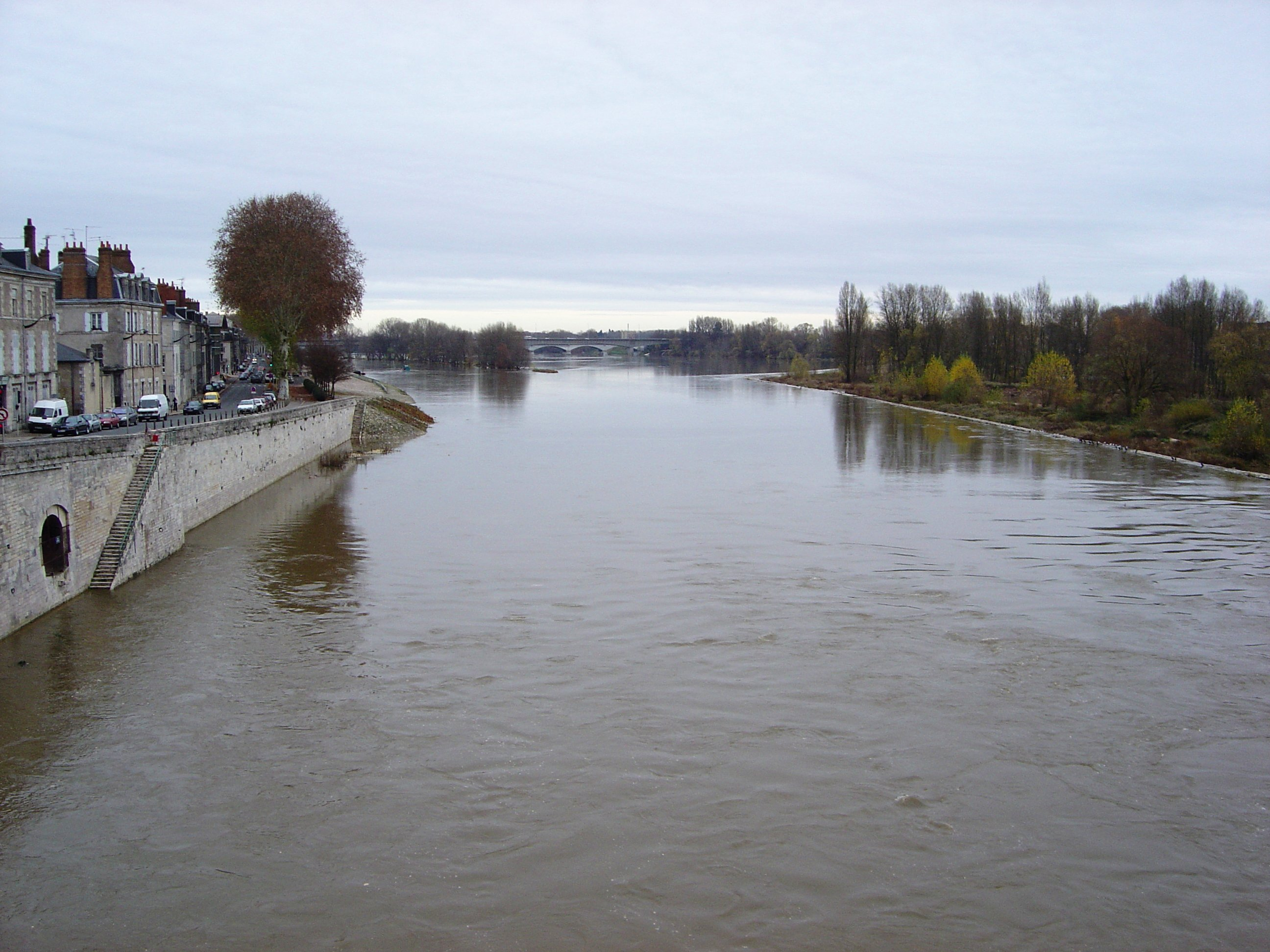 The Loire River in Orléans, France. (boosted colors)